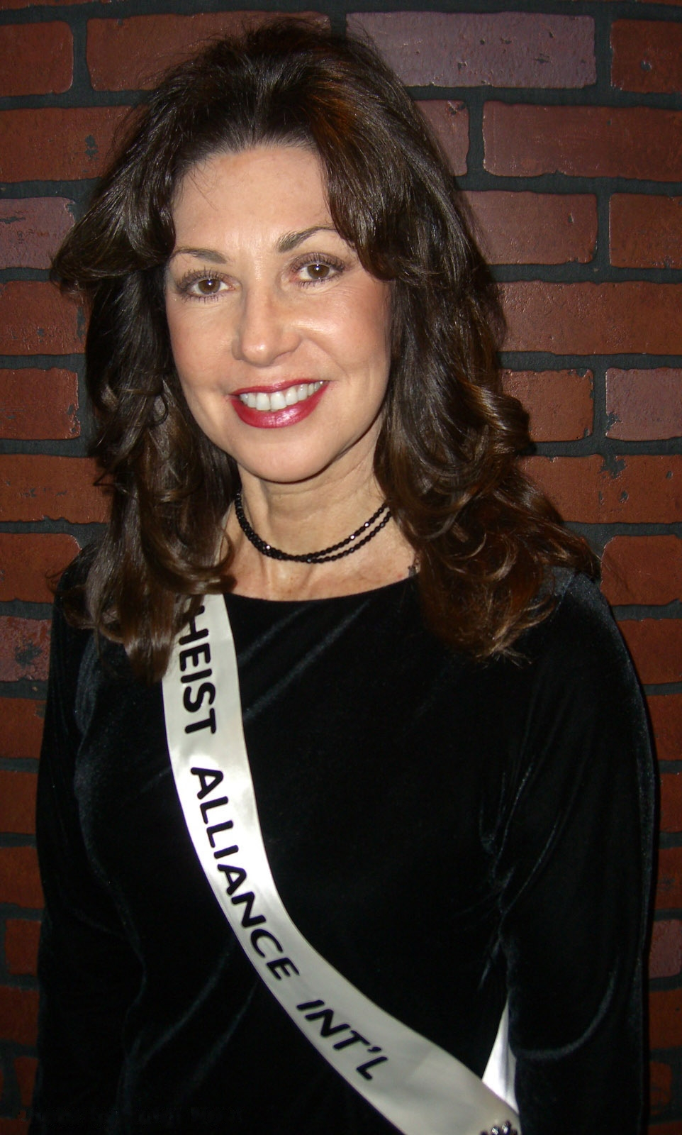 Atheist Alliance International President Margaret Downey at the Great American God-Out in Manhattan, November 15, 2007. This photo was created by Luigi Novi. It is not in the public domain, and use of this file outside of the licensing terms is a copyright violation.